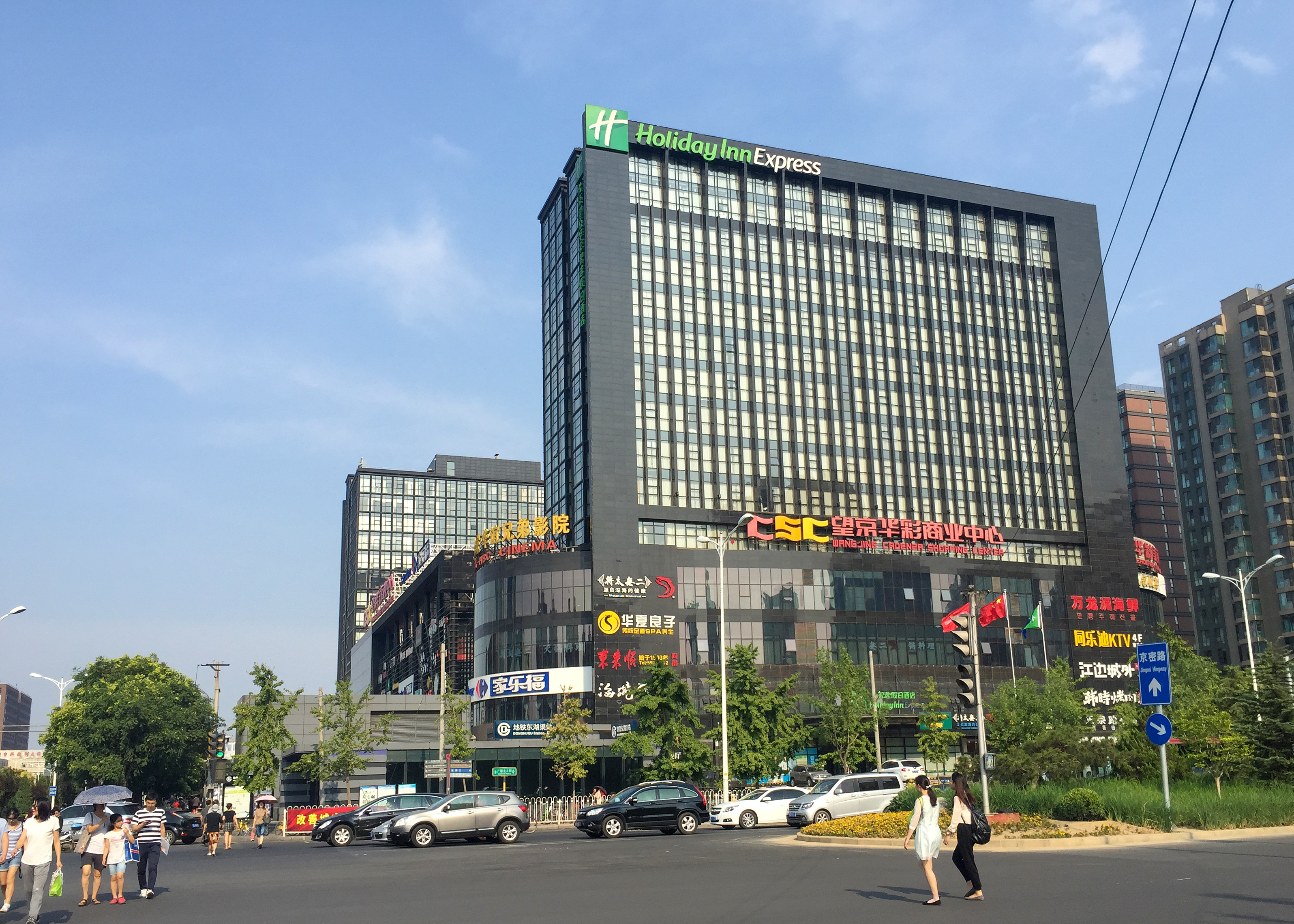 Right at Donghuqu.